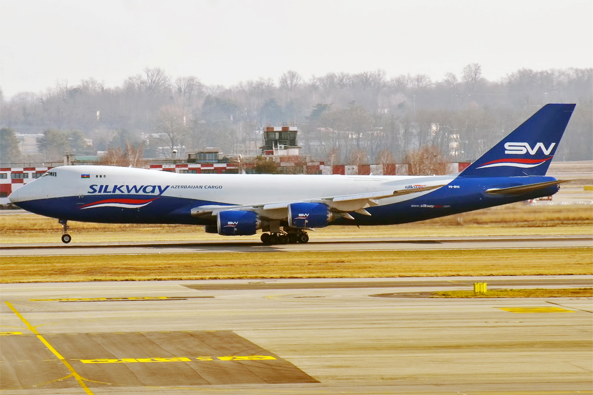 Silk Way West Airlines, VQ-BVC, Boeing 747-83QF at Milan Malpensa Airport